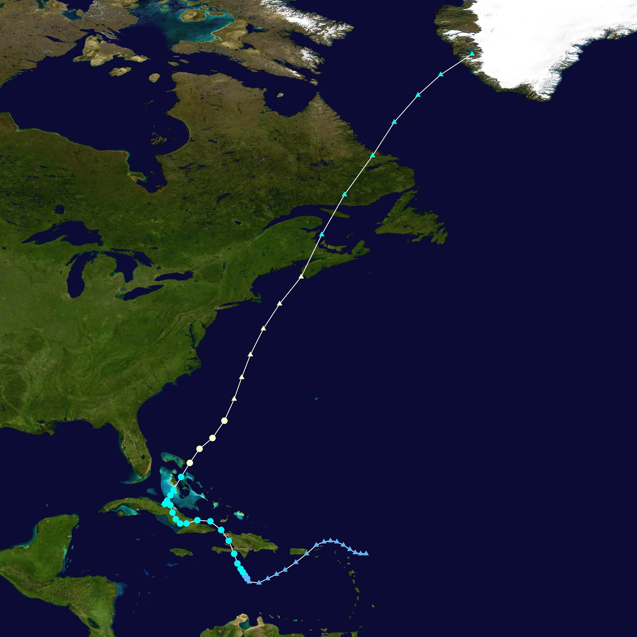 Track map of Hurricane Noel of the 2007 Atlantic hurricane season. The points show the location of the storm at 6-hour intervals. The colour represents the storm's maximum sustained wind speeds as classified in the Saffir–Simpson scale (see below), and the shape of the data points represent the nature of the storm, according to the legend below. Saffir–Simpson scale Tropical depression≤38 mph≤62 km/h Category 3111–129 mph178–208 km/h Tropical storm39–73 mph63–118 km/h Category 4130–156 mph209–251 km/h Category 174–95 mph119–153 km/h Category 5≥157 mph≥252 km/h Category 296–110 mph154–177 km/h Unknown Storm type Tropical cyclone Subtropical cyclone Extratropical cyclone / Remnant low / Tropical disturbance / Monsoon depression